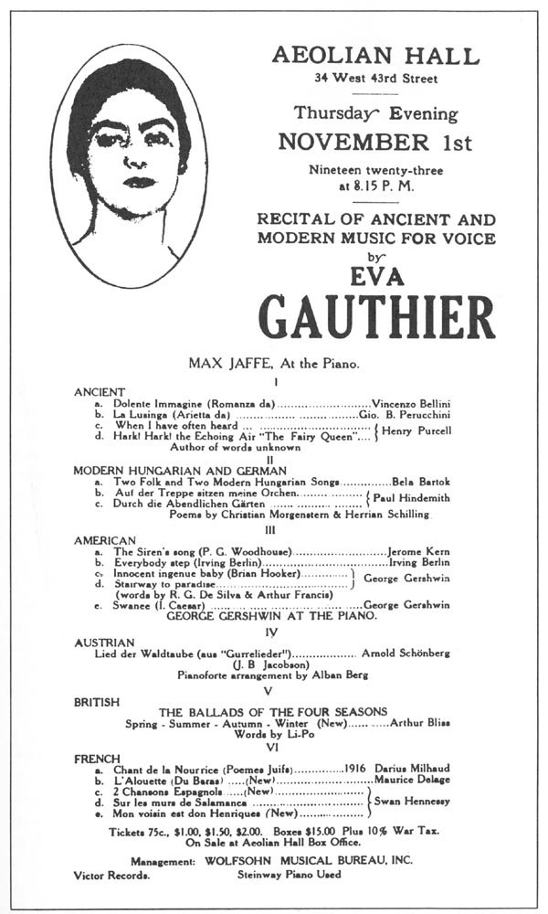 Playbill from Eva Gauthier's breakthrough 1923 concert where she first presented the works of George Gershwin to a classical audience